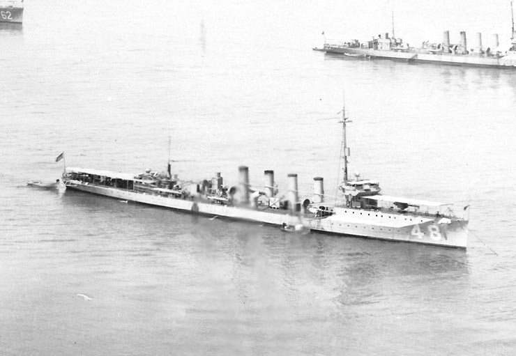 USS Parker (DD-48) in the North River off New York City, 20 May 1921. Cropped from NH 103514, a panoramic photograph by Himmel and Tyner, New York.